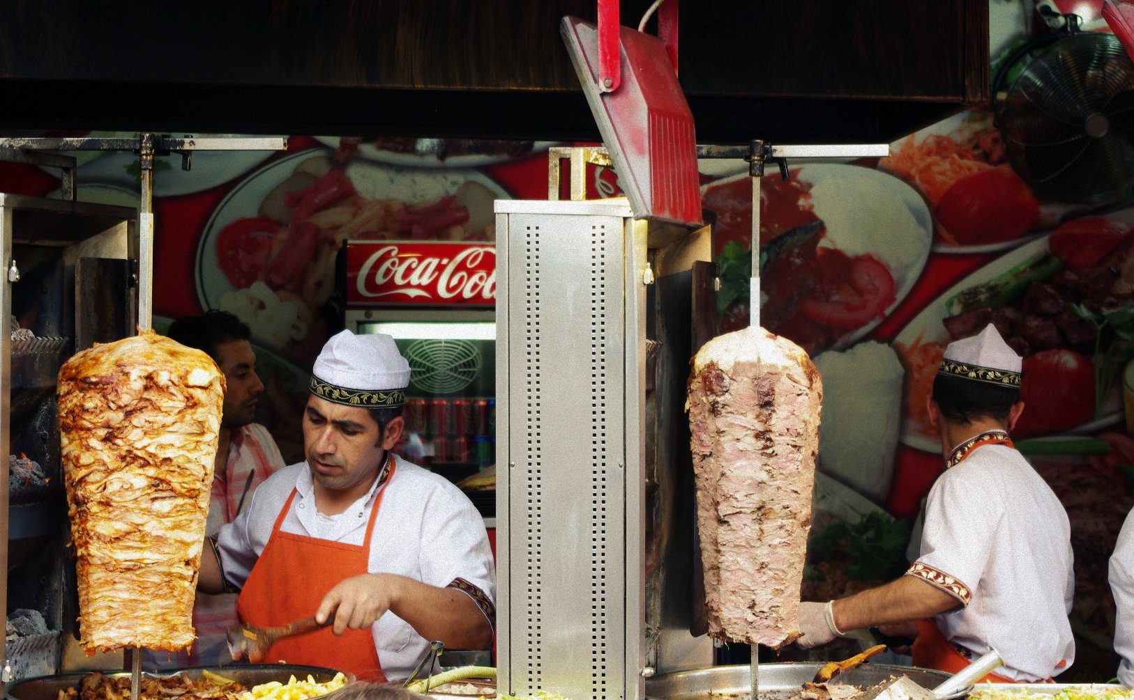 Döner, to the left, of chicken and cooked with charcoal, and to the right veal, cooked with a gas stove